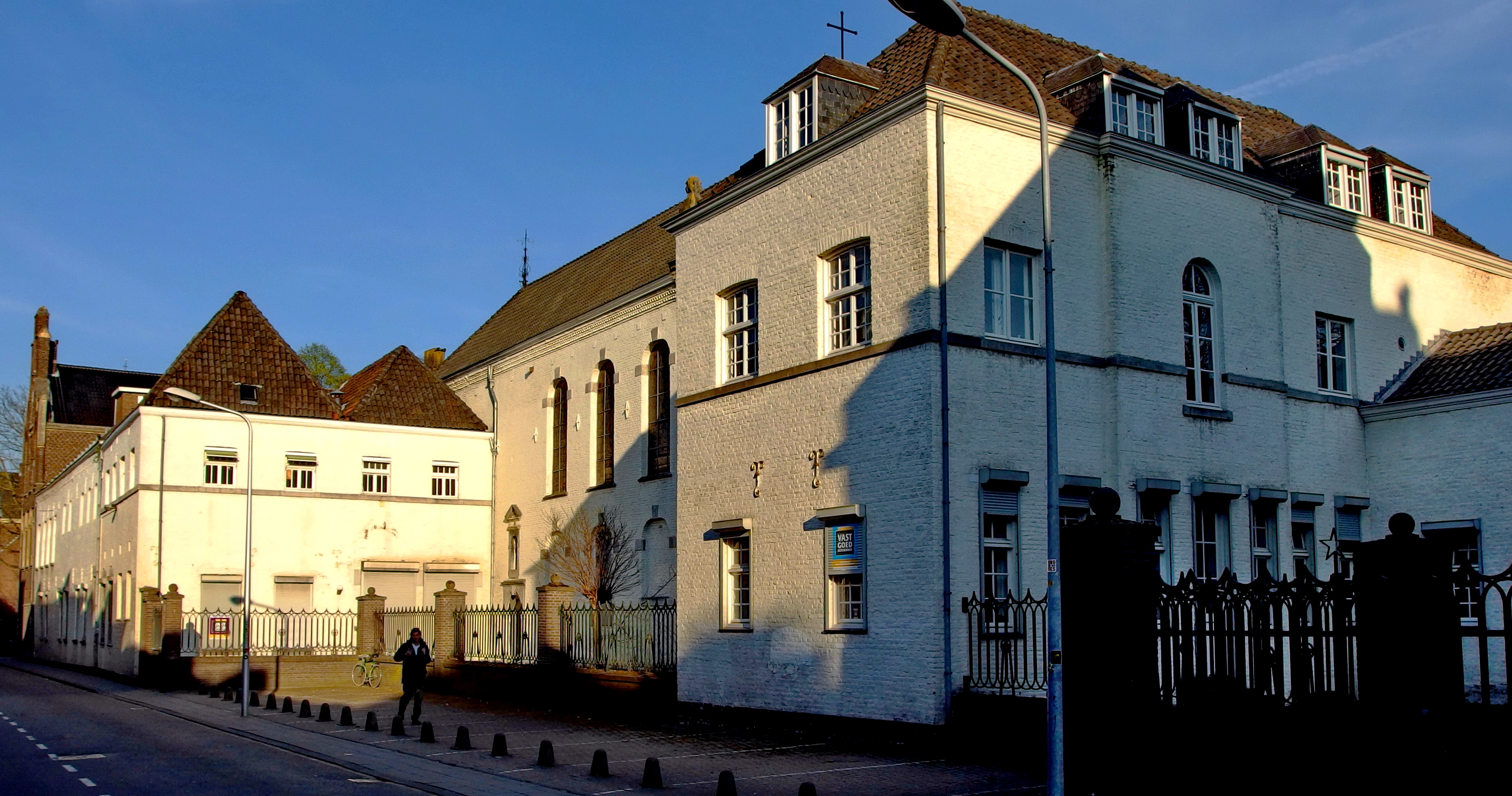 Maastricht, the Netherlands: view from Calvariestraat of buildings belonging to the former Calvary Hospital (Gesticht Calvariënberg). To the left the remainder of a 17th-century monastery founded by Elisabeth Strouven. In the centre the chapel built in 1710. To the right the former canon's house of the dean of the Chapter of Saint Servatius. This house was built in 1722, enlarged in 1828, and partly reconstructed in 1847 to be incorporated in the hospital as an asylum for the insane.